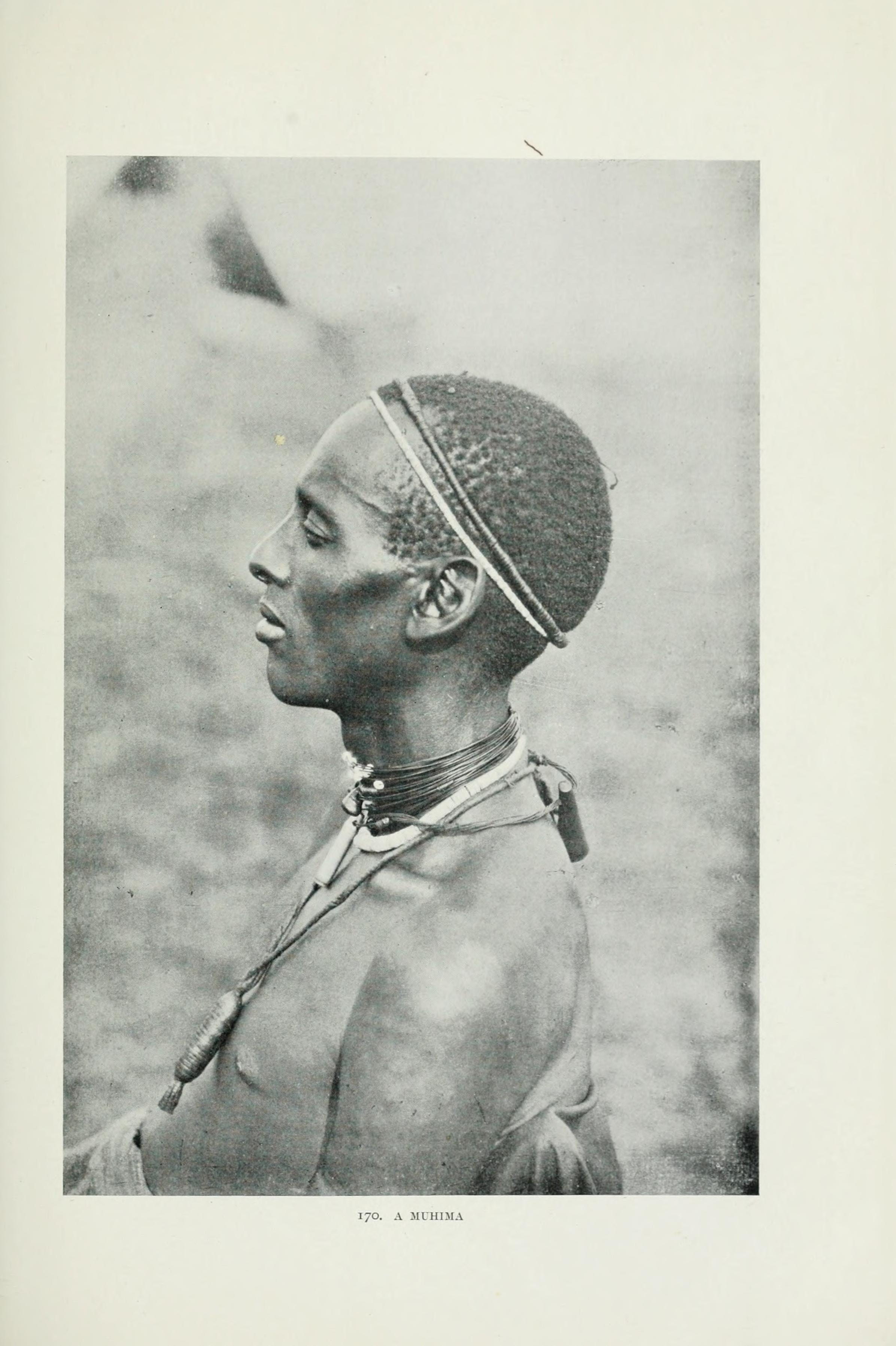 A Muhima.